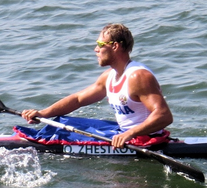 Canoeing at the 2016 Summer Olympics – Men's K-4 1000 metres